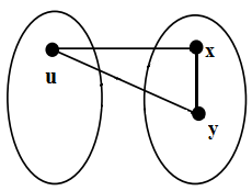 Chứng Minh Chiều Ngịch